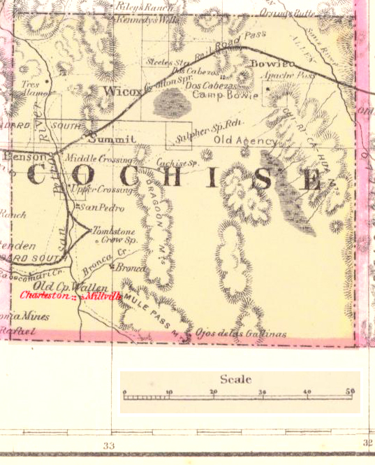 Portion of County and Township Map of Arizona and New Mexico.